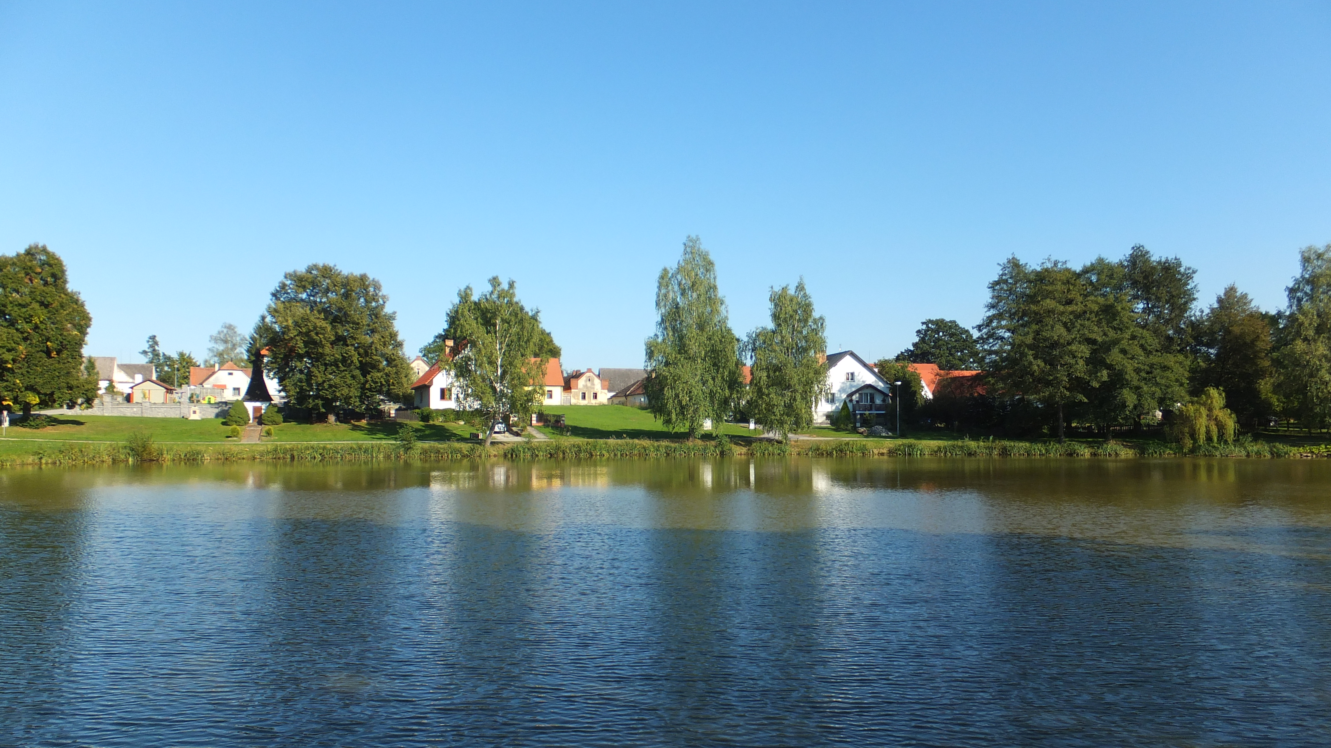 Spolí - the eastern side of the square